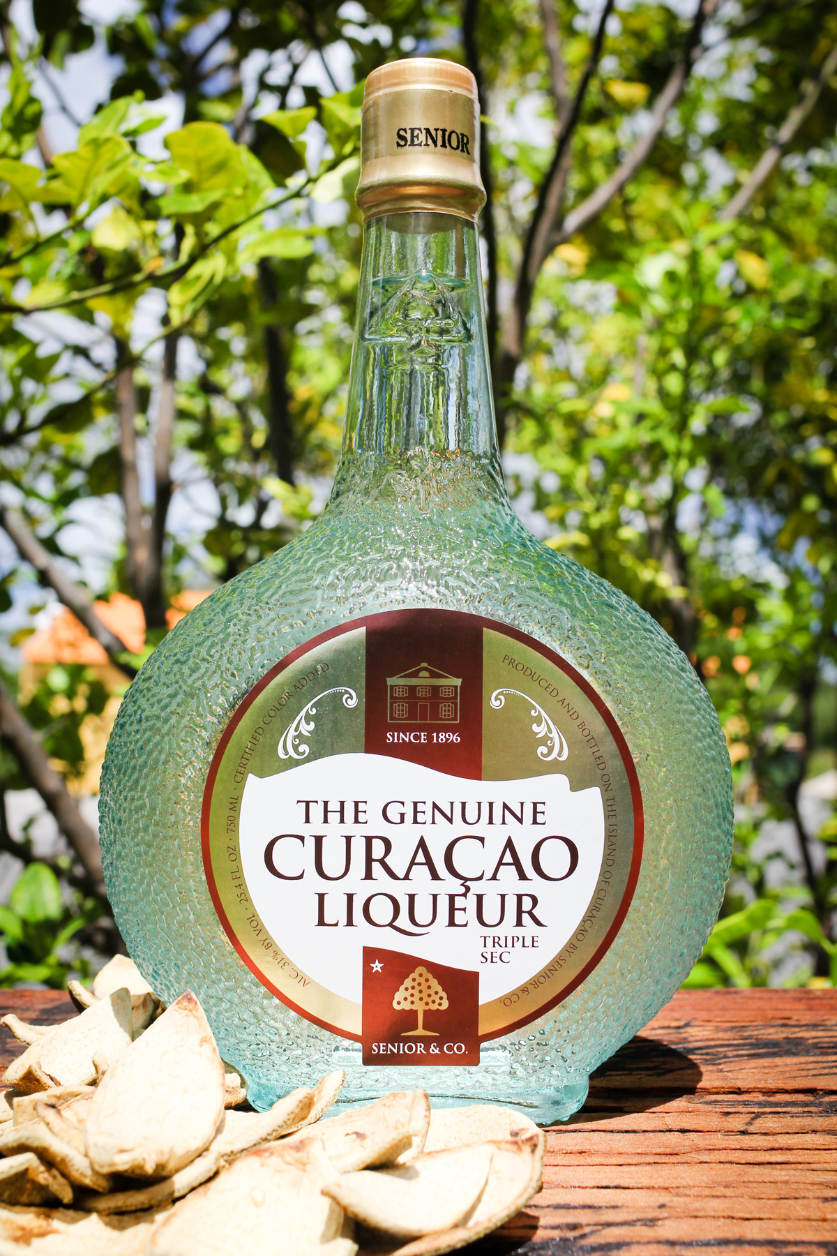 Senior Genuine Curaçao Triple Sec